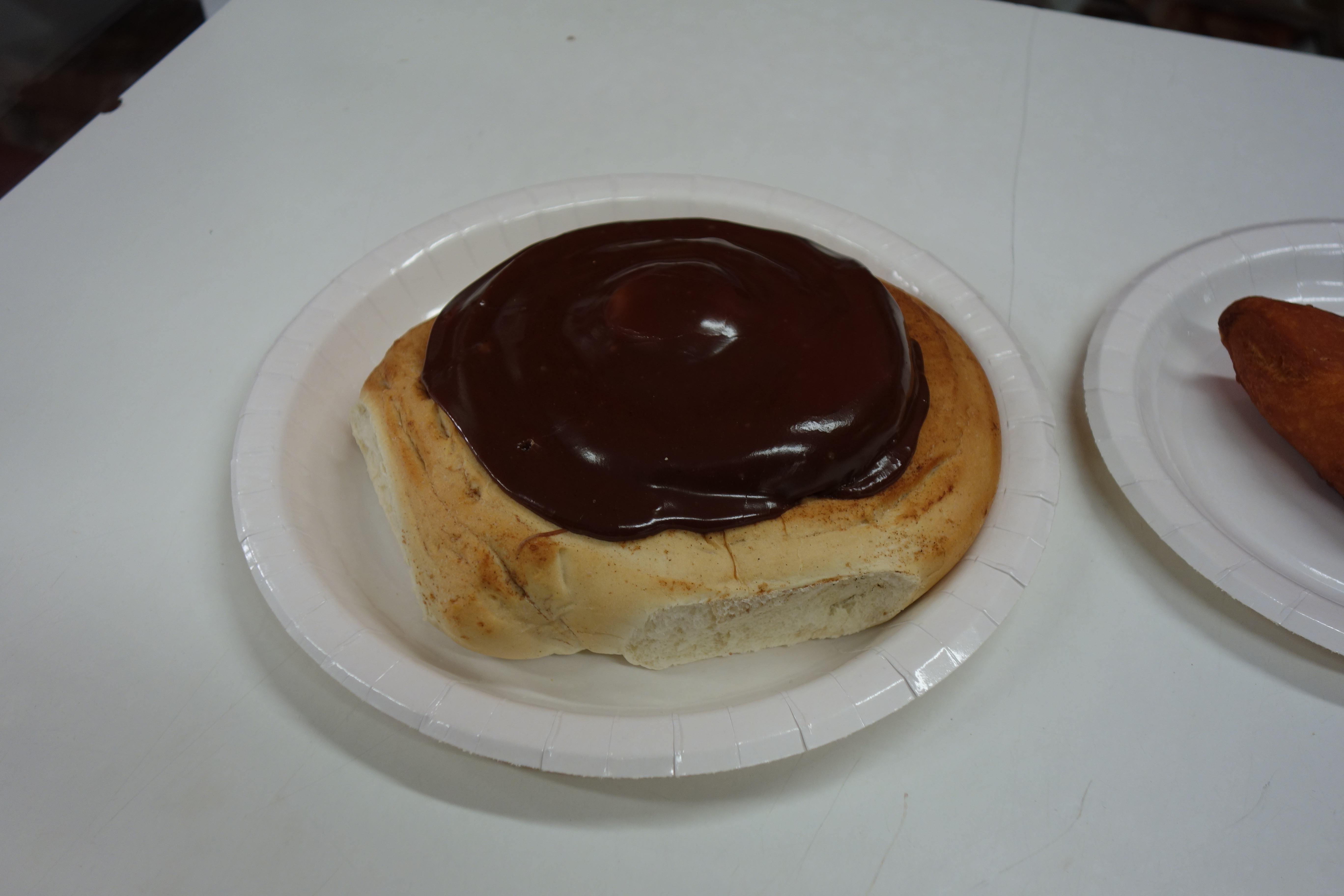 An Icelandic cinnamon roll covered in chocolate glaze, served at a convenience store in Patreksfjörður.